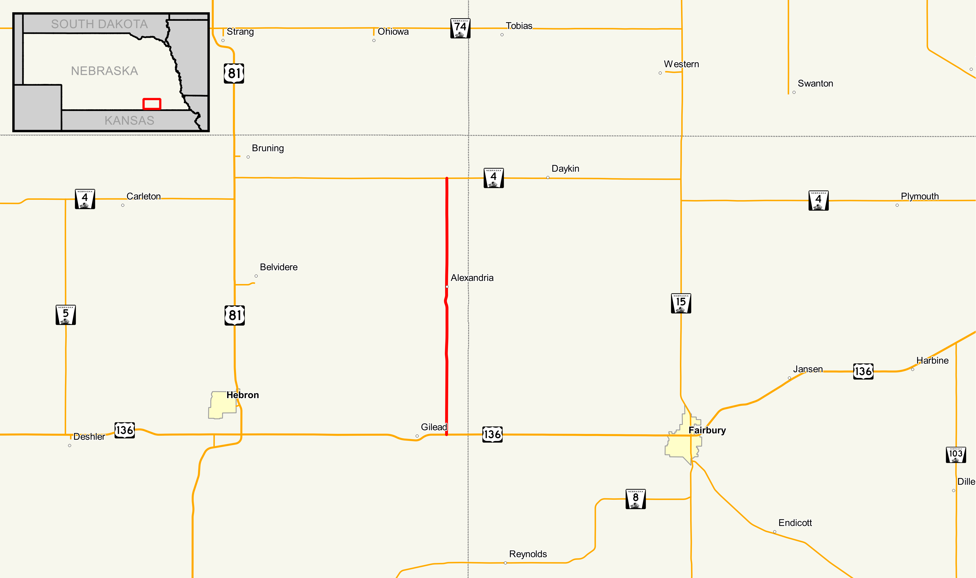 Map of Nebraska Highway 53 Data Sources: Nebraska Highways - - Dec 2016 Nebraska County Boundaries - - Dec 2016 Nebraska City Boundaries - - Dec 2016 This PNG graphic was created with QGIS